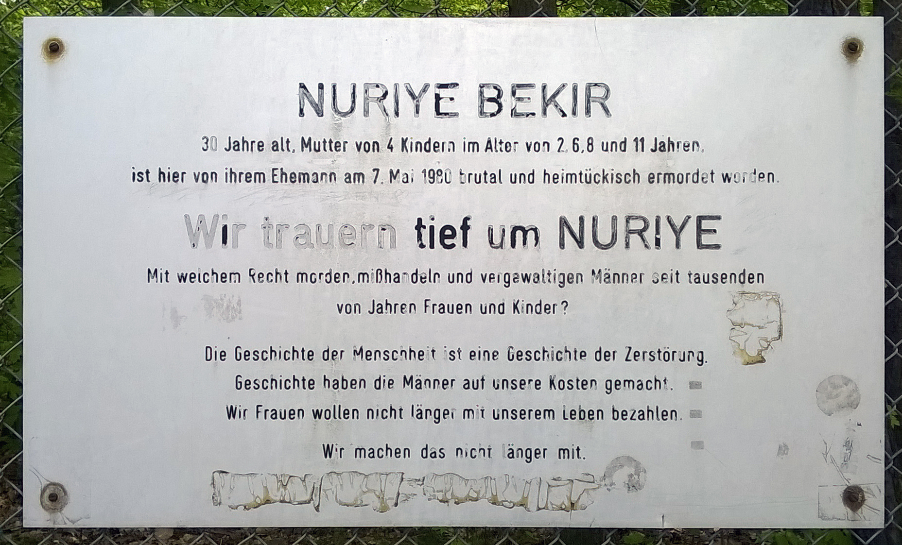 Memorial plaque, Nuriye Bekir, Stadtrandstraße 562, Berlin-Falkenhagener Feld, Deutschland